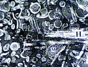 Hexagonal H-II (H), inverterted miceller (M) and lamellar bilayer (le) aqueous lipid phases by negative staining transmission electron microscopy.